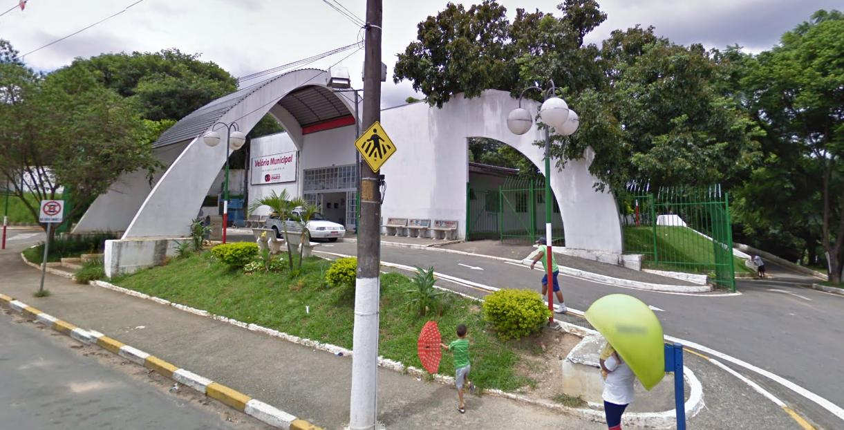 =Velório do Jardim Santo Antonio Osasco